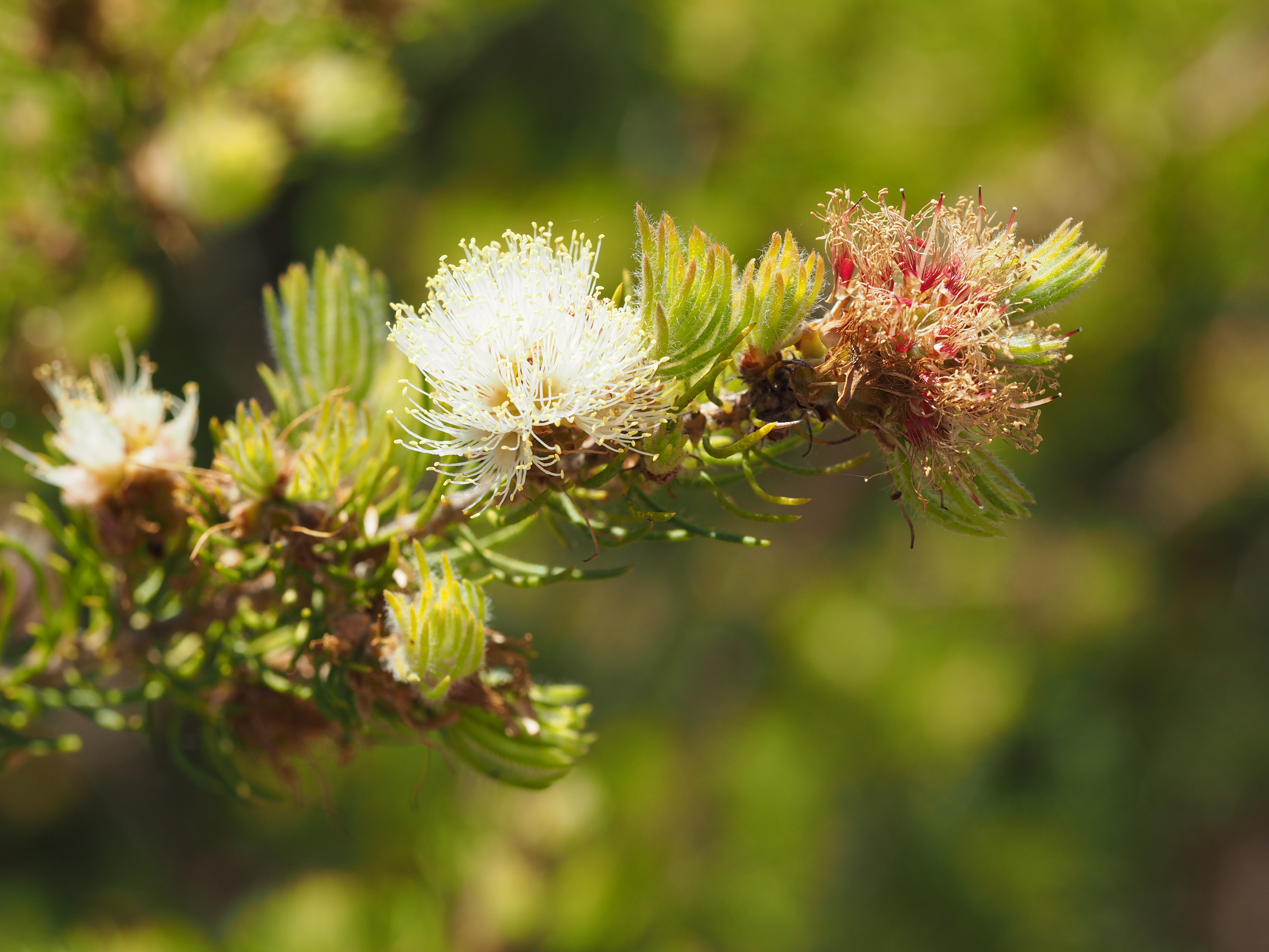 Melaleuca urceolaris growing in the Lesueur National Park